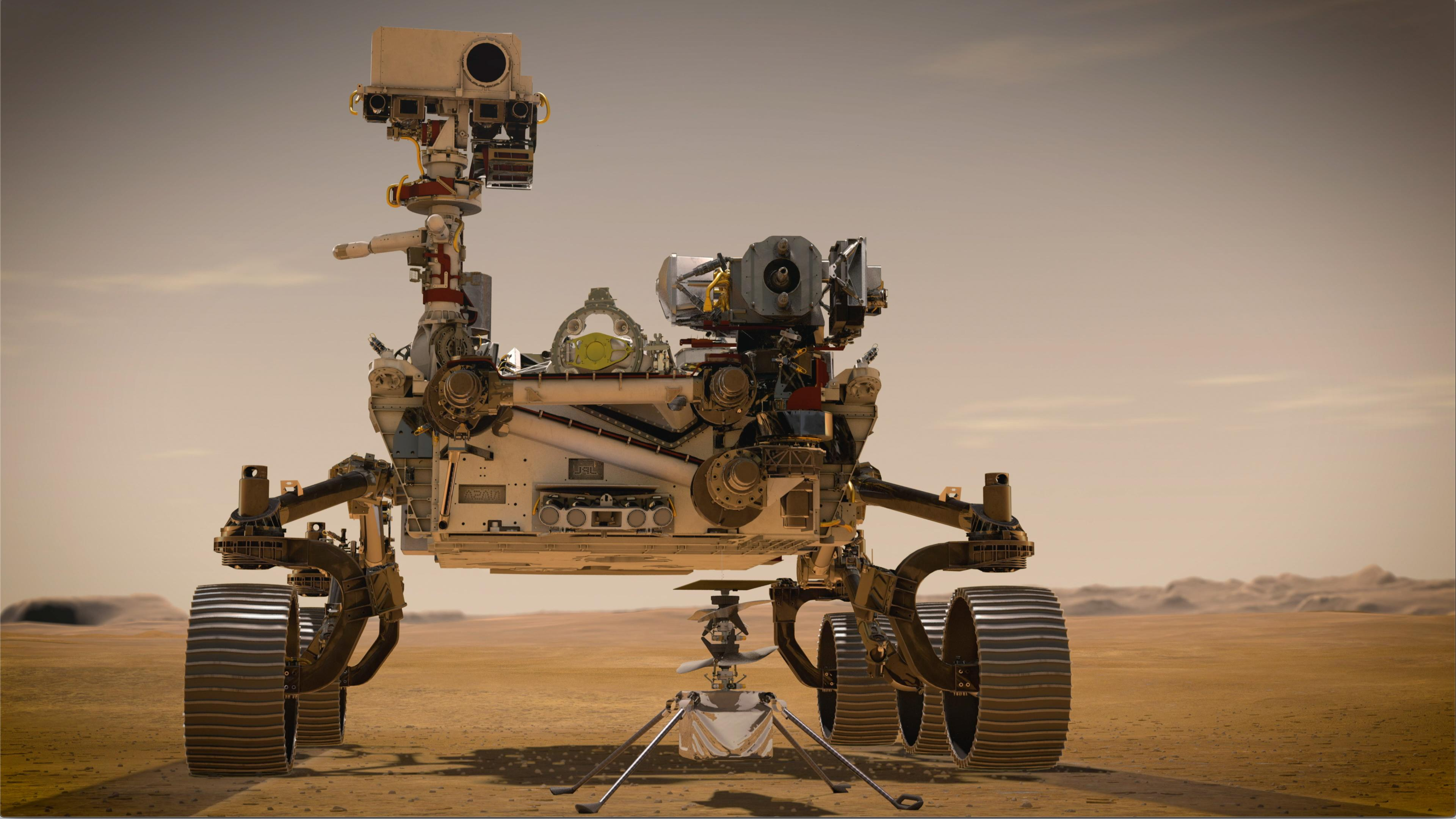 PIA23962: Portrait of Perseverance and Ingenuity (Artist's Concept) In February 2021, NASA's Mars 2020 Perseverance rover and NASA's Ingenuity Mars Helicopter (shown in an artist's concept) will be the agency's two newest explorers on Mars. Both were named by students as part of an essay contest. Perseverance is the most sophisticated rover NASA has ever sent to Mars. Ingenuity, a technology experiment, will be the first aircraft to attempt controlled flight on another planet. Perseverance will arrive at Mars' Jezero Crater with Ingenuity attached to its belly. NASA's Jet Propulsion Laboratory built and will manage operations of Perseverance and Ingenuity for the agency. Caltech in Pasadena, California, manages JPL for NASA. For more information about the Mars 2020 Perseverance mission, go to For more information about Ingenuity, go to